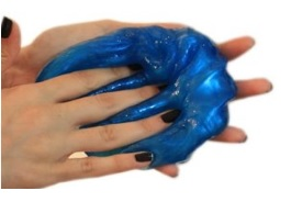 اسلایم